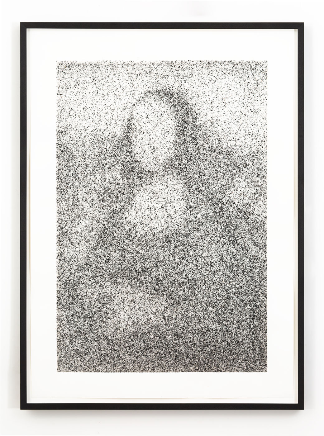 Maximilian Prüfer, Mona Lisa (La Gioconda) 2, 2019, Fly-Behavior on Hadern-Paper, 90.1 × 64.8 cm